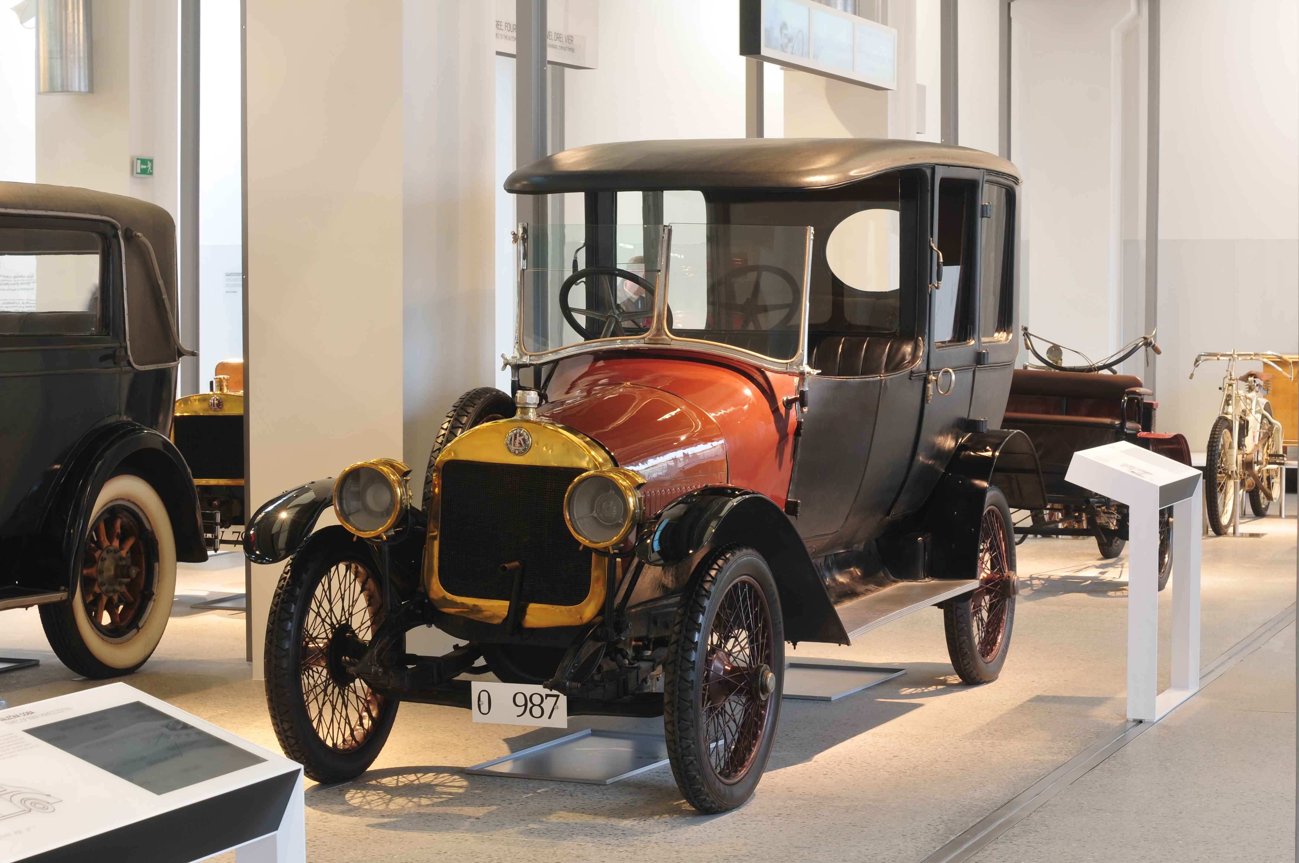 Laurin & Klement S